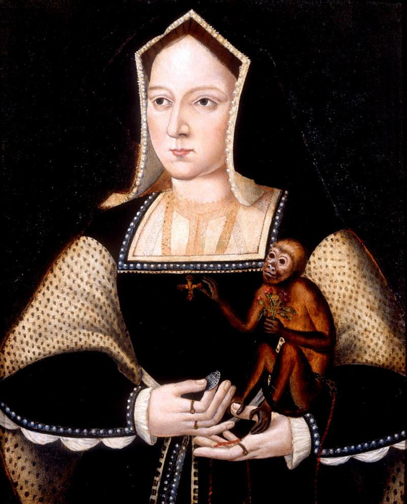 This is the largest miniature of Henry VIII's first wife. Three other miniatures exist, but two are circular copies of this original; the third is believed to be a companion piece to a miniature of the king. A unique feature of this work is that it includes Katharine's hands. All of Horenbout's other miniatures focused on the head and shoulders. All of his portraits have plain blue backgrounds and are traced with a gold line. Later artists such as Nicholas Hilliard inherited this style and continued it into the 17th century.